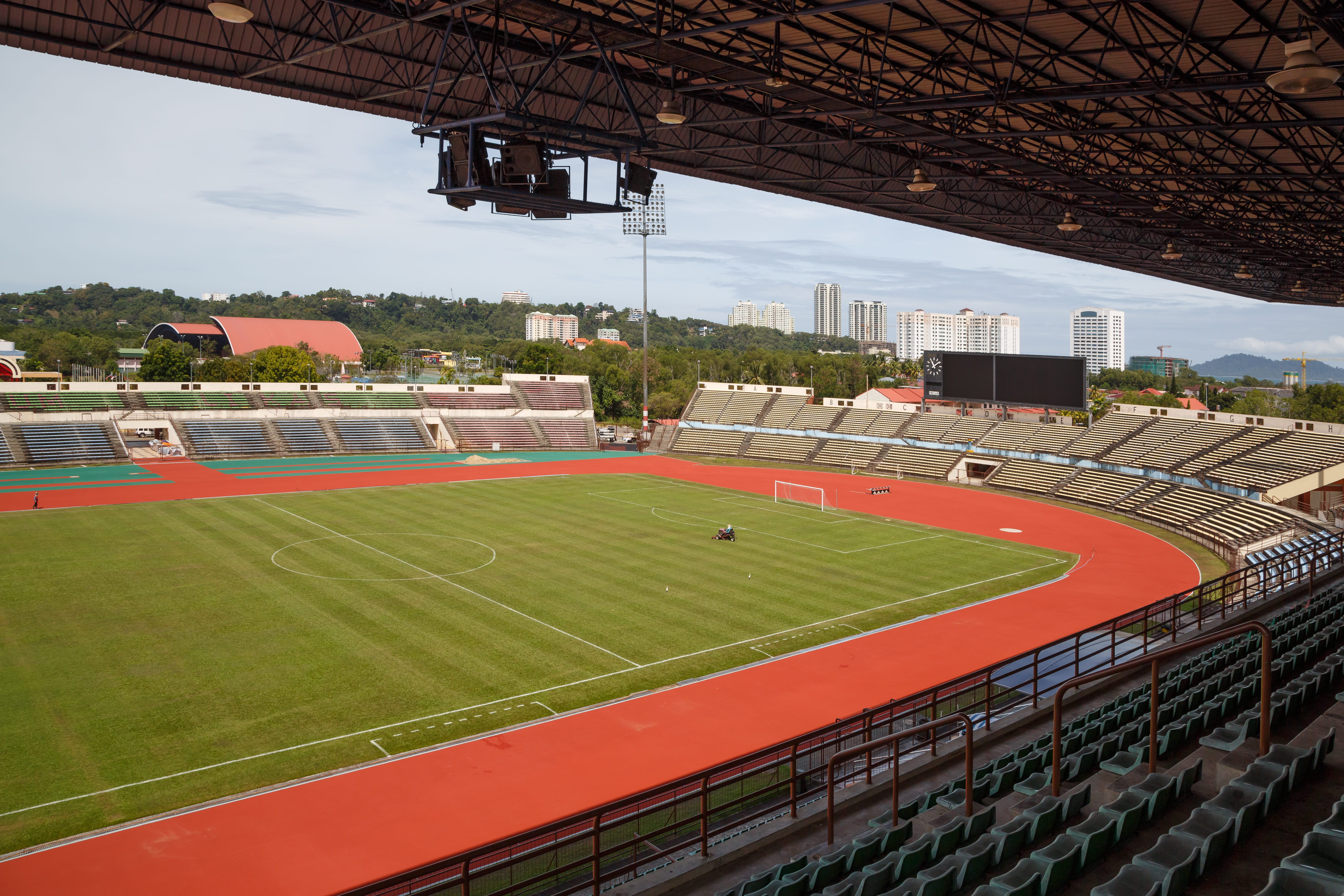 Kota Kinabalu, Sabah: Likas Stadium